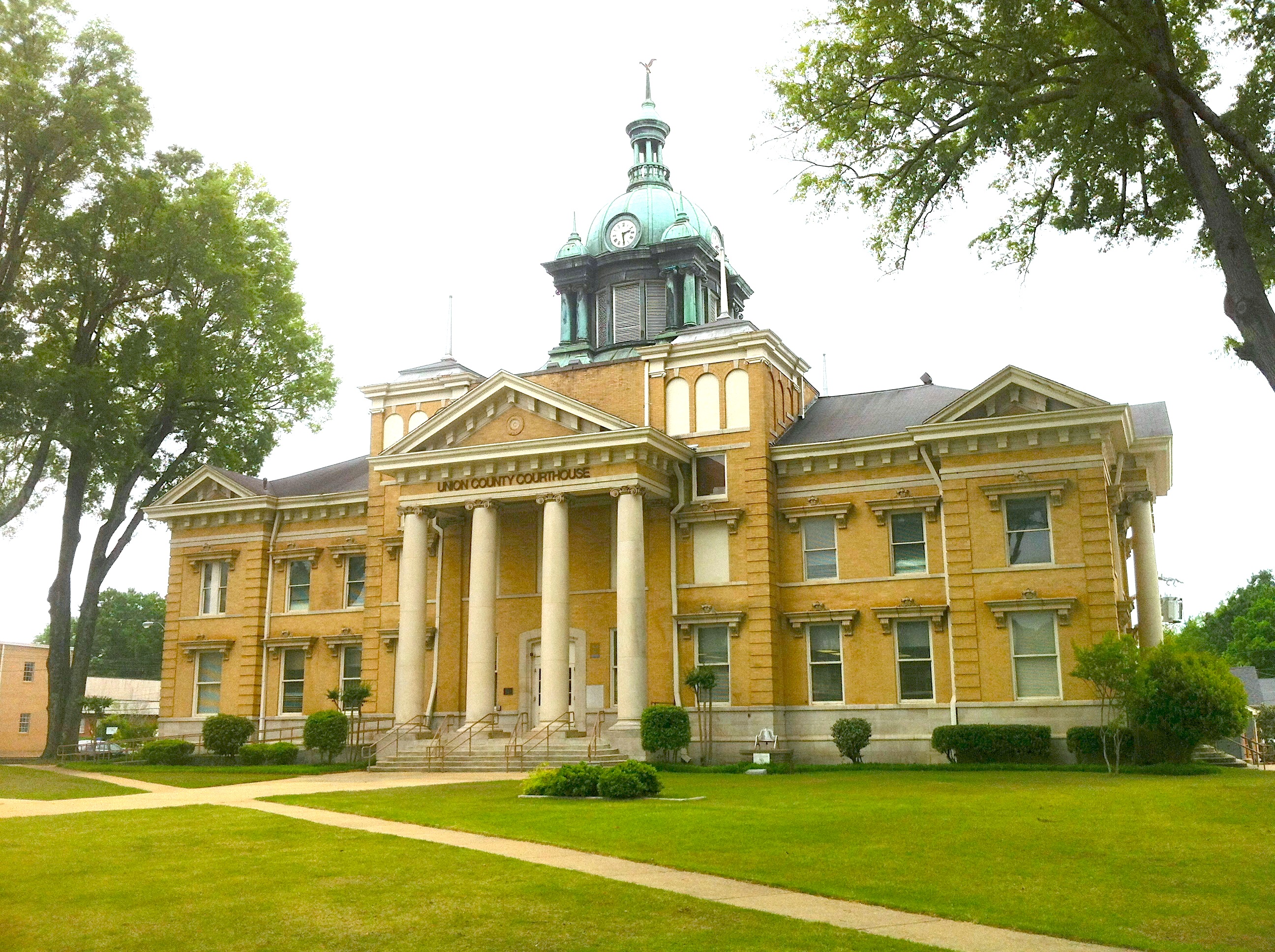 The Union County, Mississippi courthouse in New Albany, Mississippi, 2014.